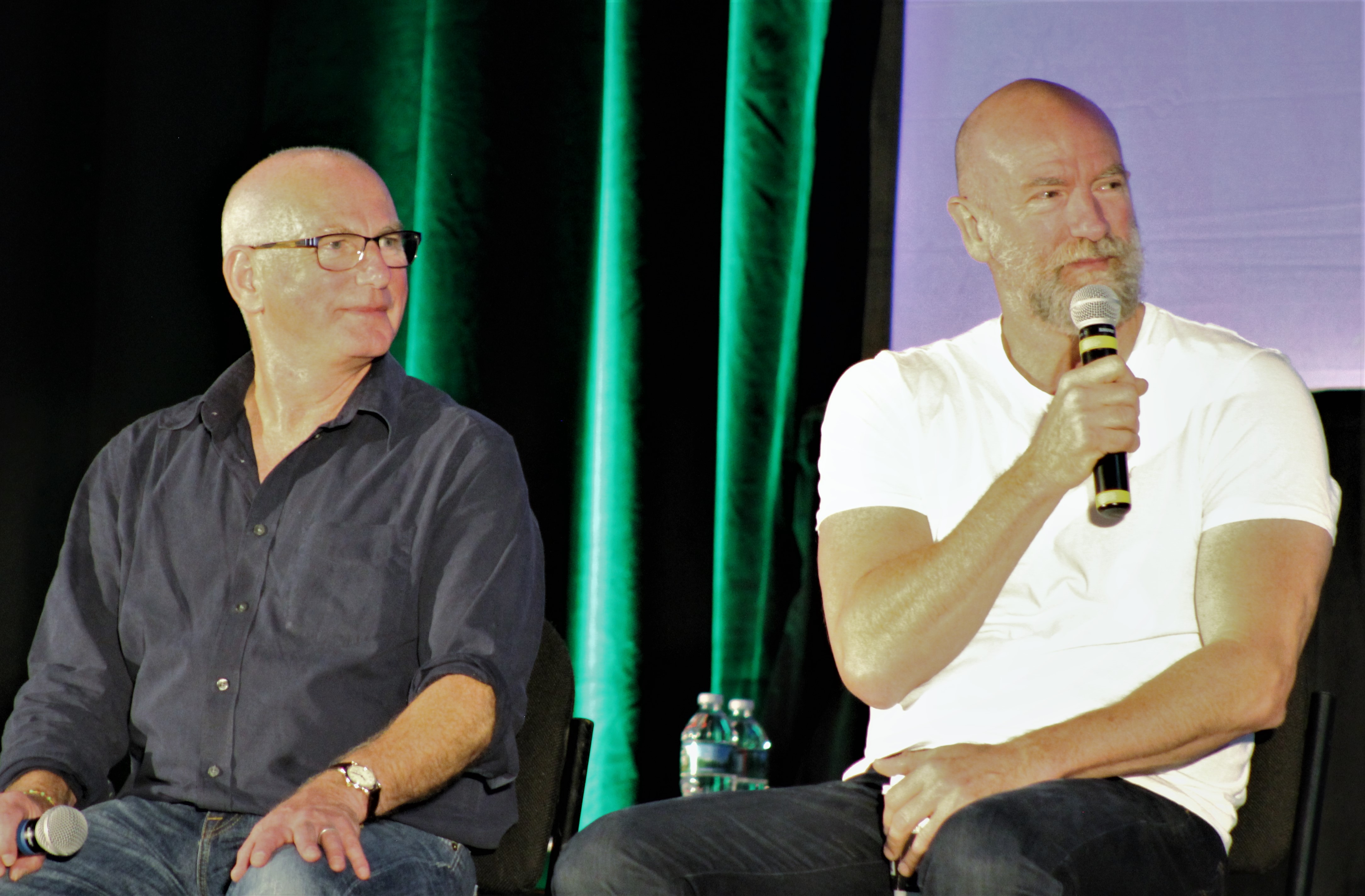 Graham McTavish (and Gary Lewis) answering audience questions during a panel at Creation Entertainment's New Jersey Outlander Convention on 20 August 2018.